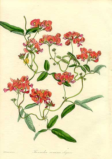 Elegant Scarlet Kennedia (Kennedia coccinea subsp. coccinea) from Magazine of Botany by Paxton. Hand colored lithograph.